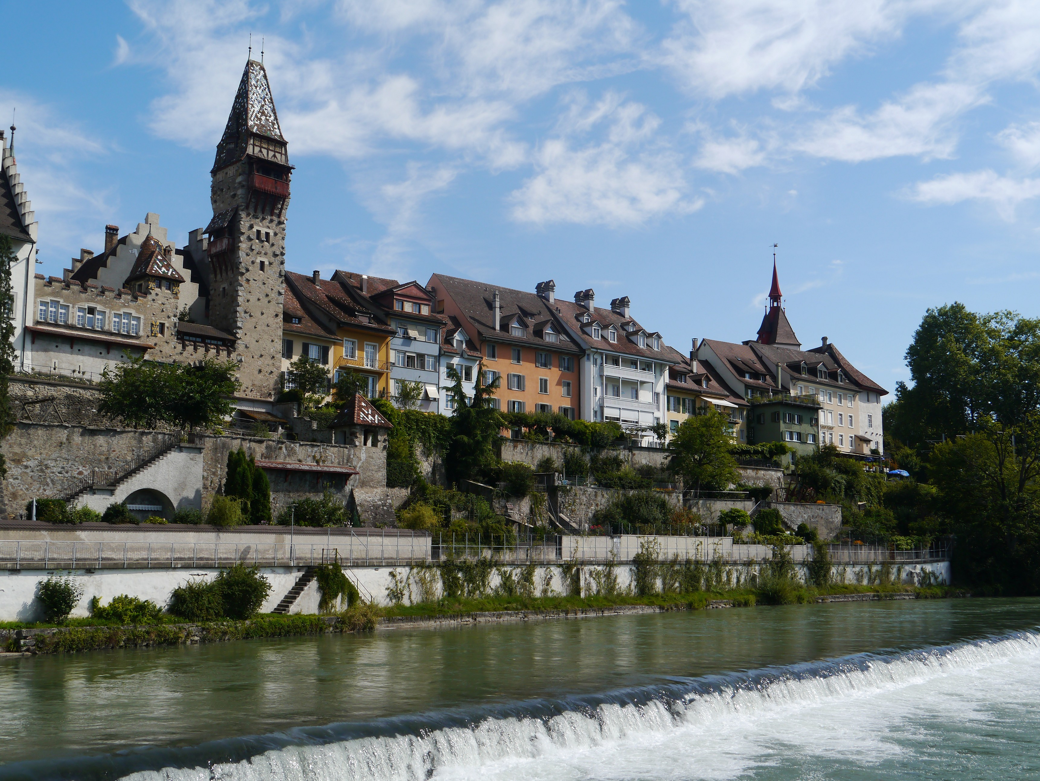 Old town of Bremgarten, Canton of Aargau, Northern Switzerland